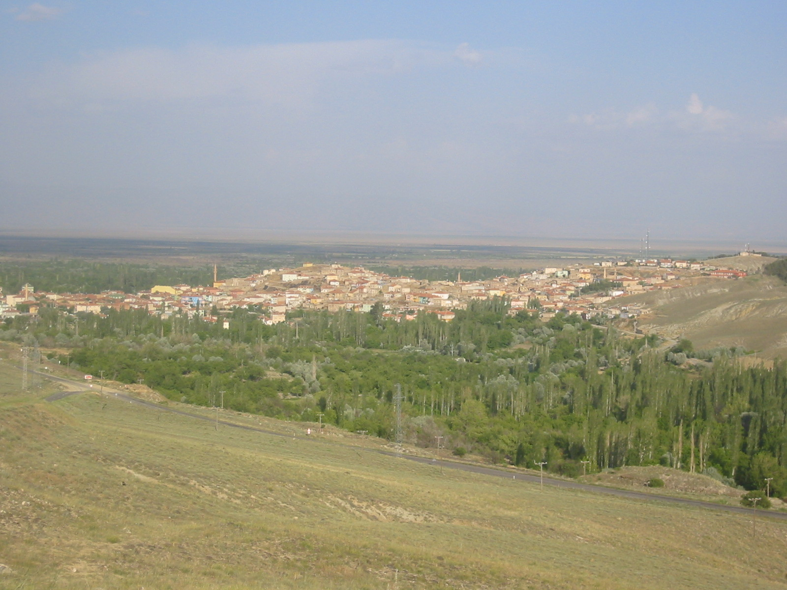 Yeşilhisar seen from road to Keşlik village